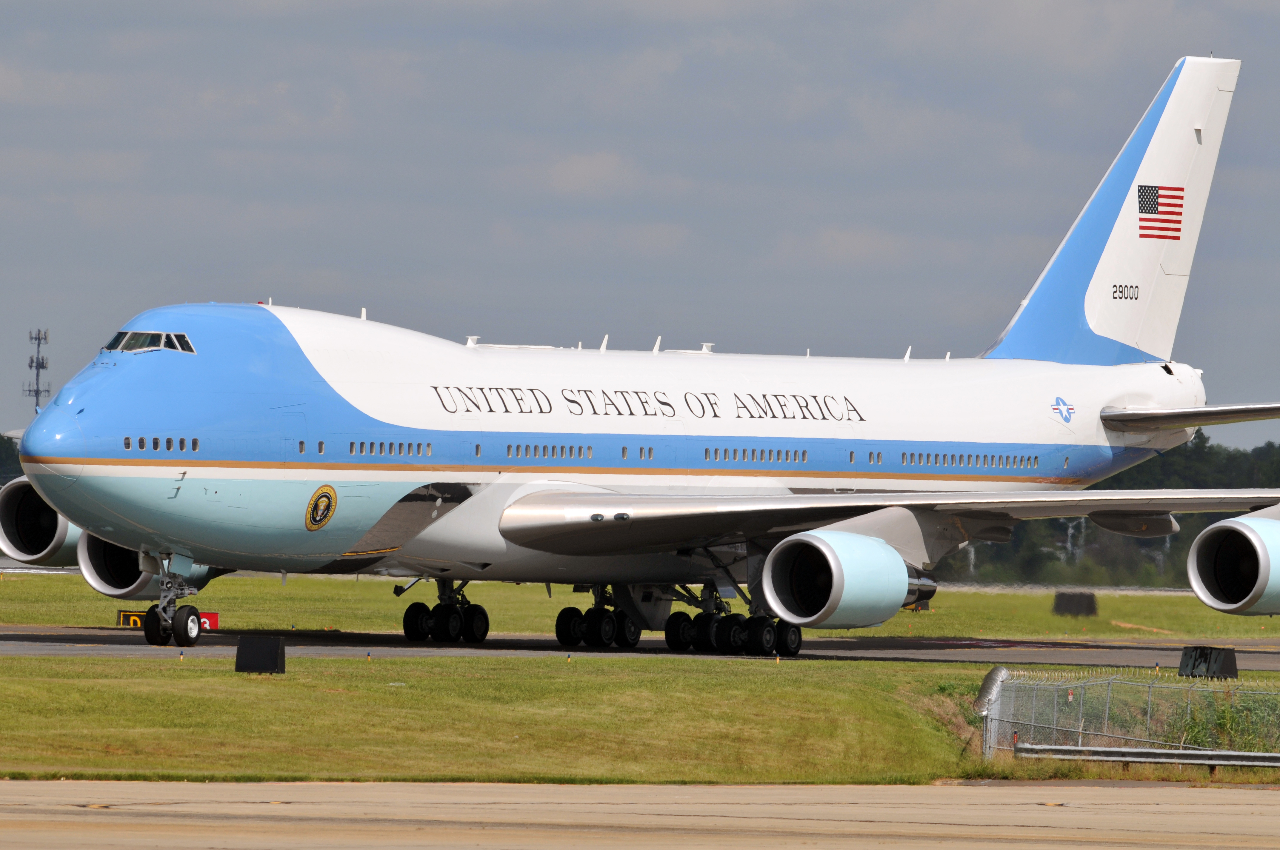 Air Force One arrives at the North Carolina Air National Guard base at Charlotte Douglas International Airport in Charlotte, N.C., Aug. 26, 2014. President Barack Obama visited Charlotte to deliver remarks during the 96th American Legion National Convention about issues affecting U.S. military veterans.